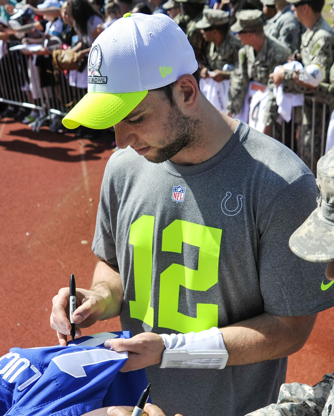 Indianapolis Colts' Quarterback Andrew Luck signs autographs for service members and their families at Earhart Field on Joint Base Pearl Harbor-Hickam.